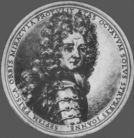 Matteo Alberti (* 1646 or 1647 in Venice, Italy; † after 1735), italian architect, disciple of the famous Andrea Palladio, working in Germany (Bensberg, Heidelberg, Duesseldorf, Cologne, Schwetzingen and others)